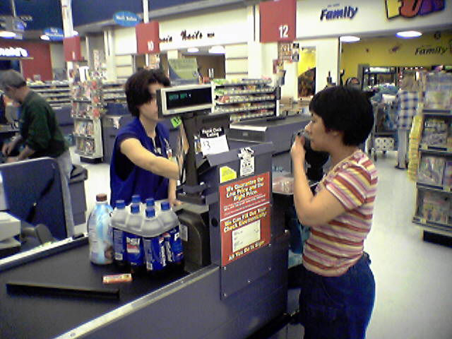 A cashier and a customer interact at a cash register at the Wal-Mart store in Harrisonburg, Virginia. Photo by Ben Schumin on March 29, 2004.